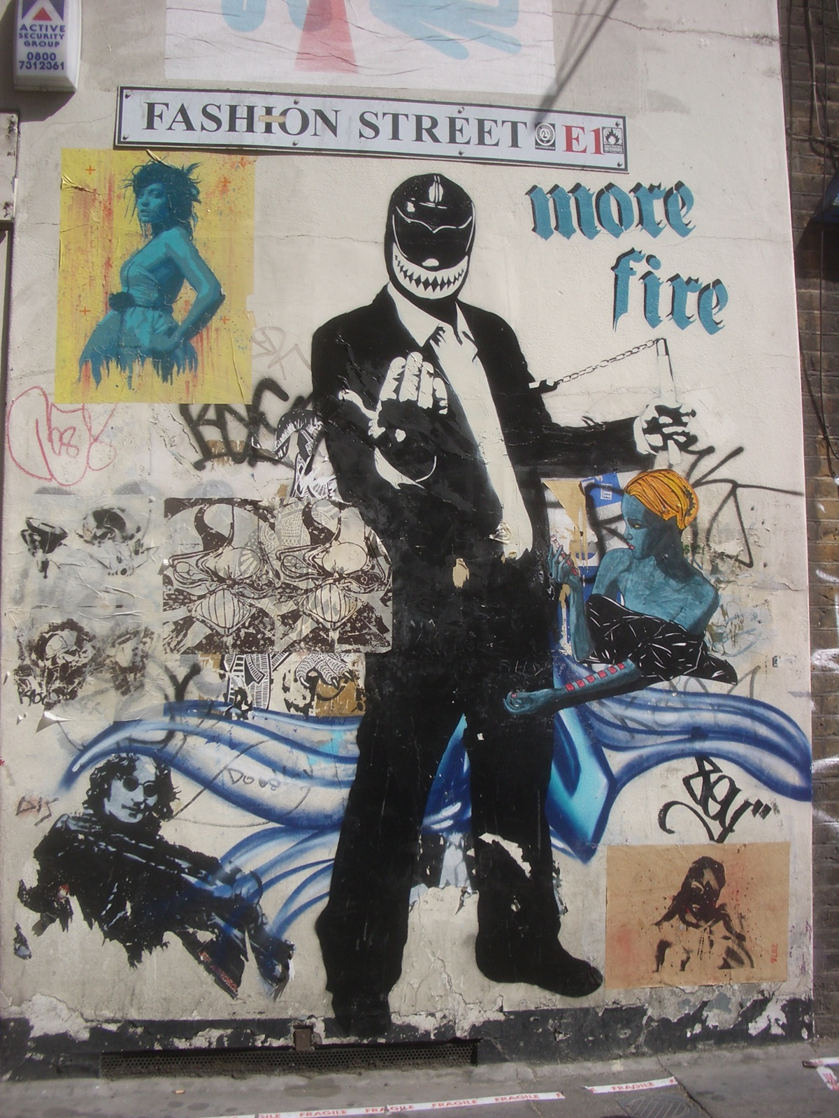 Commercial graffiti, Fashion Street, London